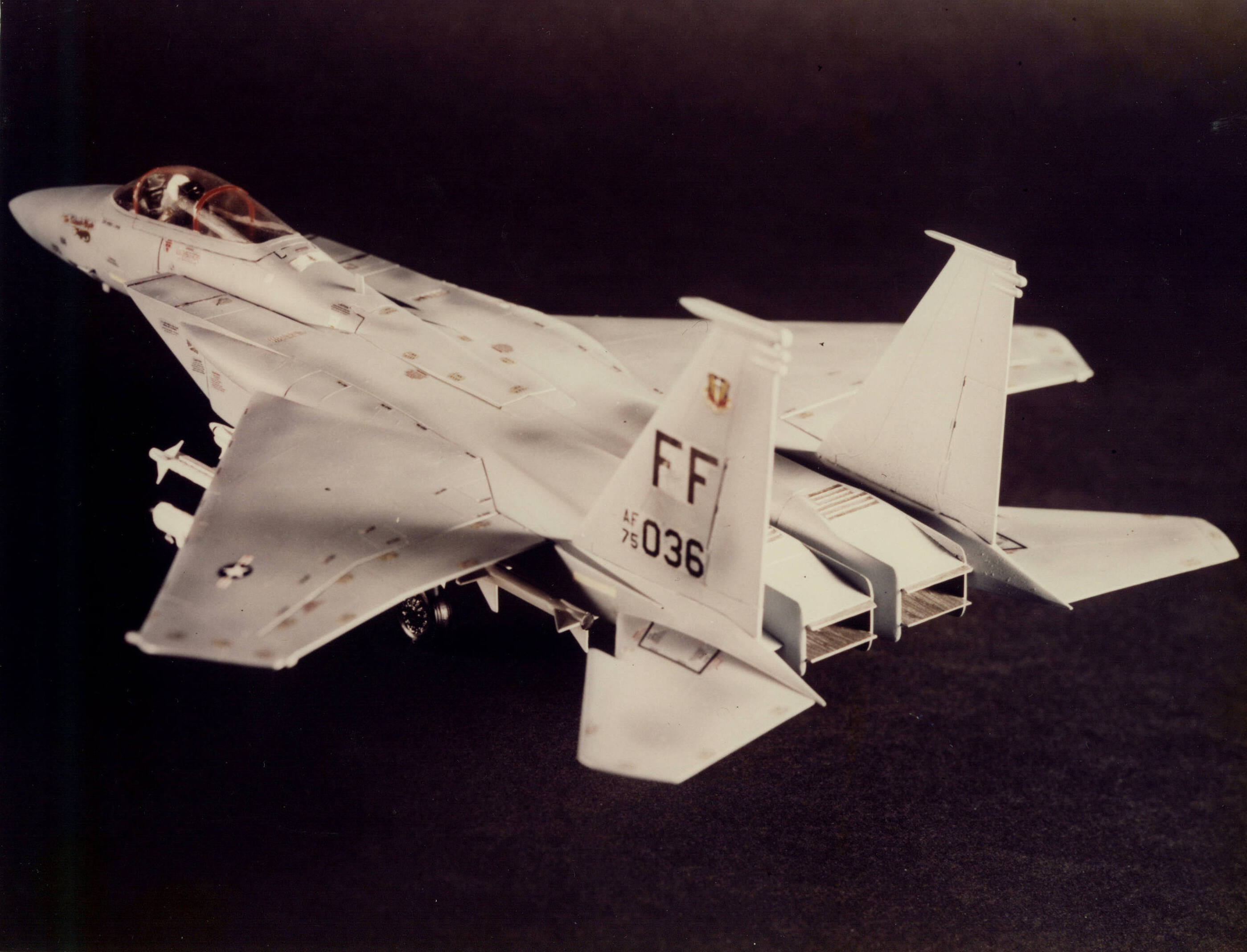 A scaled model of F-15 to study the 2D-nozzle . The research was the predecessor of McDonnell Douglas F-15 STOL/MTD program. ( original caption: 1982 F-15/2-D nozzle display model)